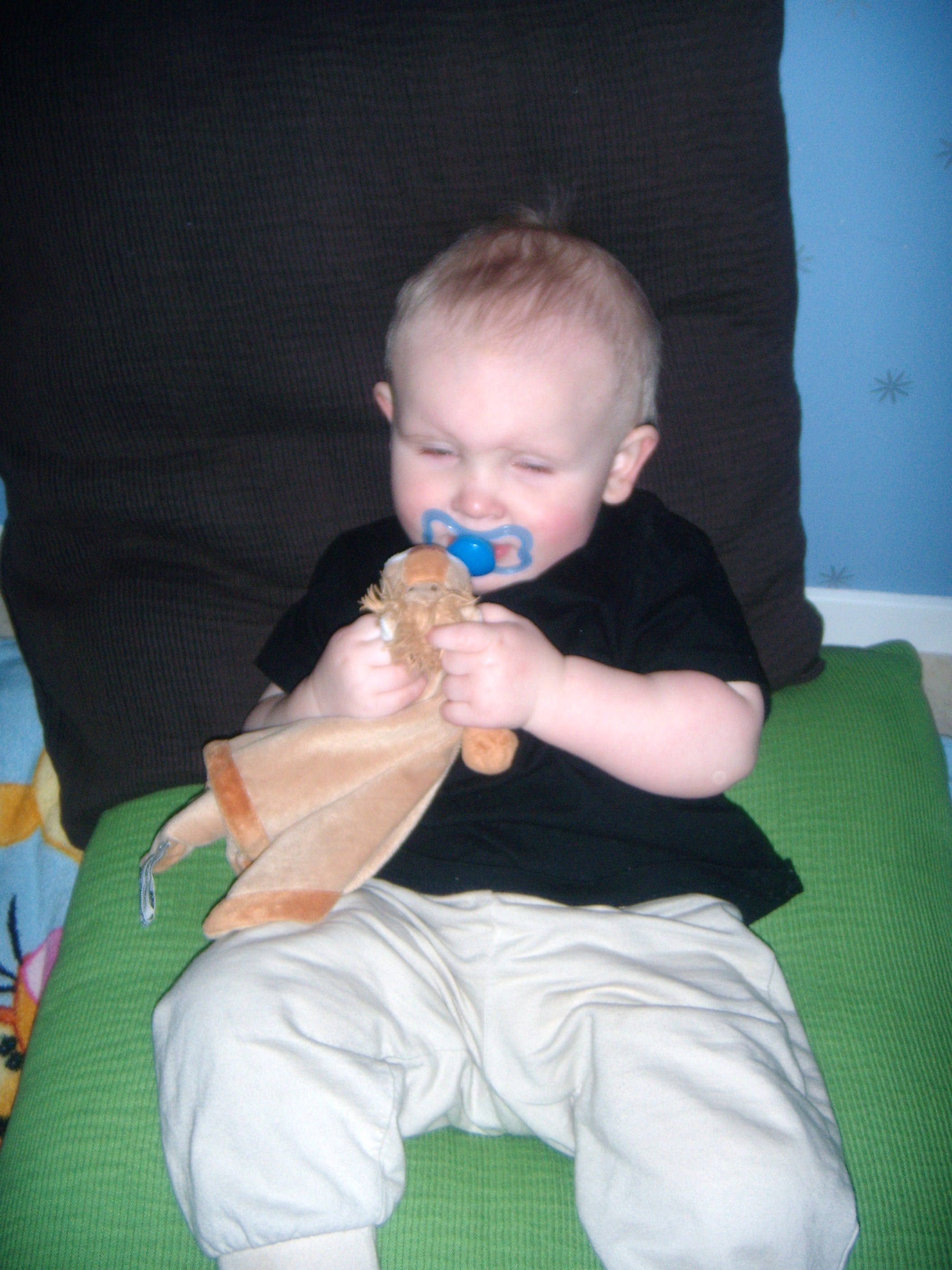 Comfort blanket, Kuscheldecke, snutte.